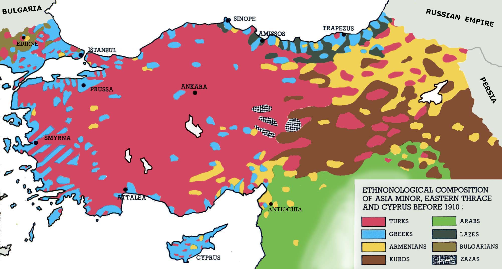 Ethnic map of Asia Minor, 1910, since The Uprooting : the expansionist policy of Turkey and the persecutions of the Greeks by the Turks in the 20th century by Institute of Historical Studies 1985, Panepistimiou avenue n° 34, Athens, Greece, 58 p., [1] and since this map File:Balkan+Mikrasia 1914.jpg The Genocide of the Ottoman Greeks 1914-1923 page 15